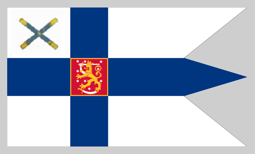 Presidential standard of Finland used by Gustaf Mannerheim